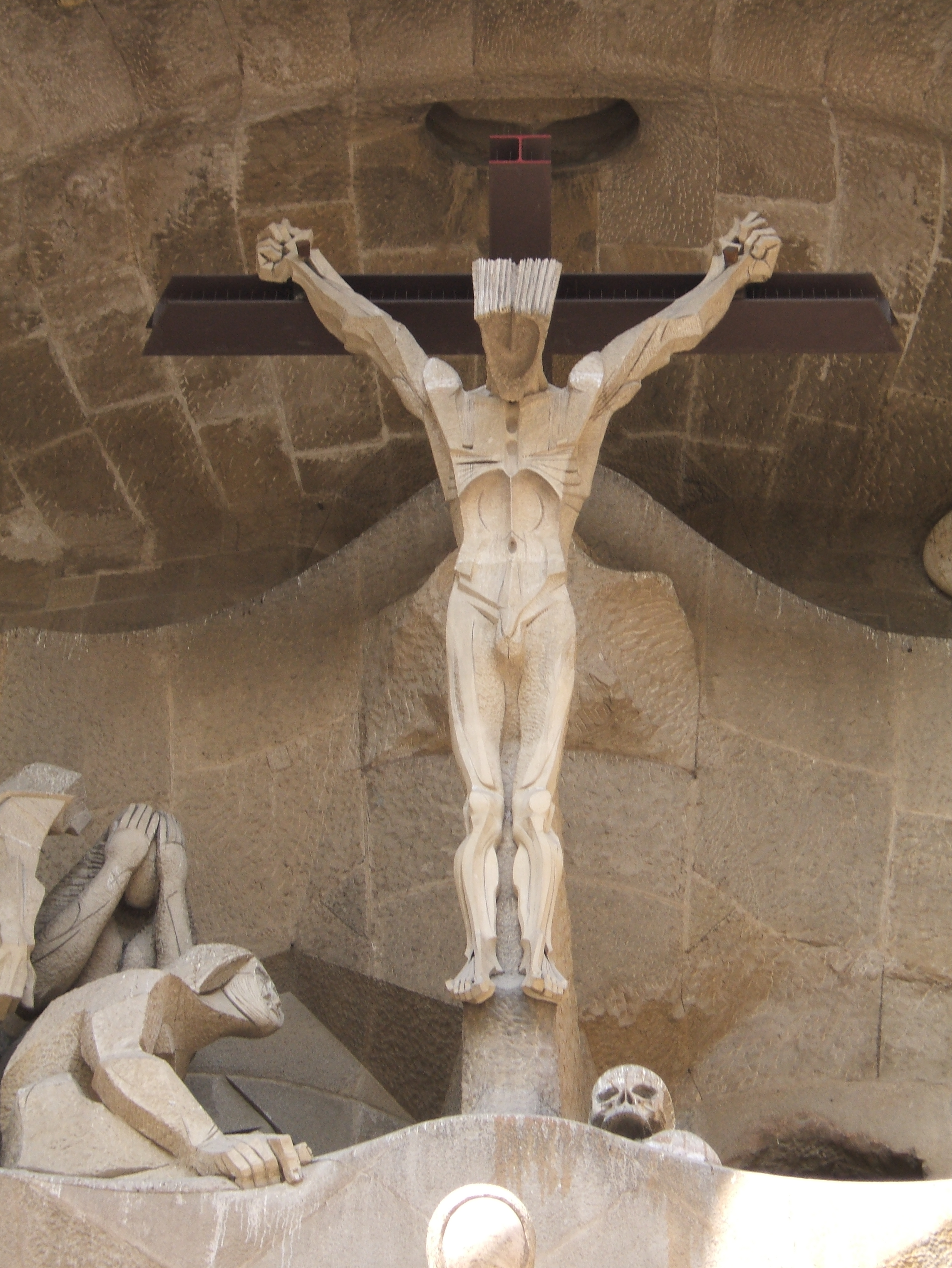 The Passion of the Christ of the Sagrada Família in Barcelona.